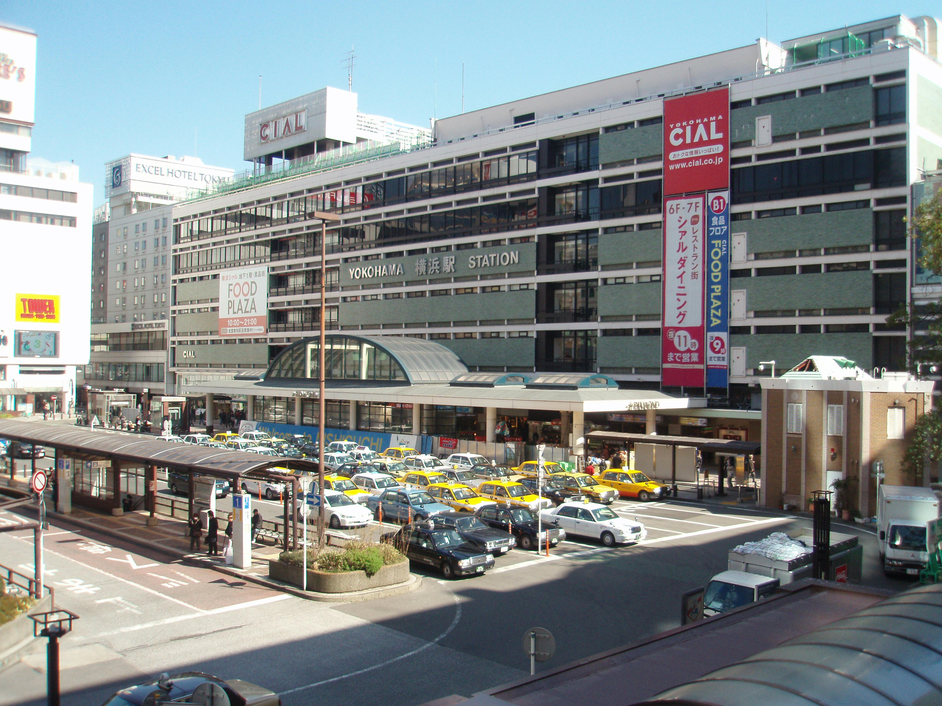 Yokohama station west exit